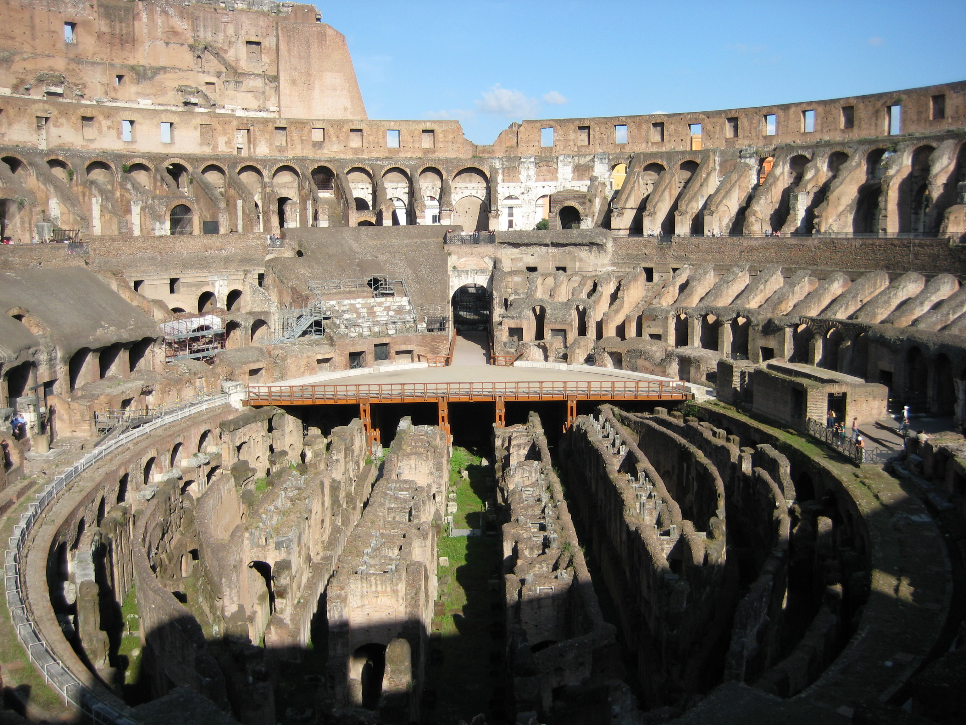 Colosseum interior, Rome.